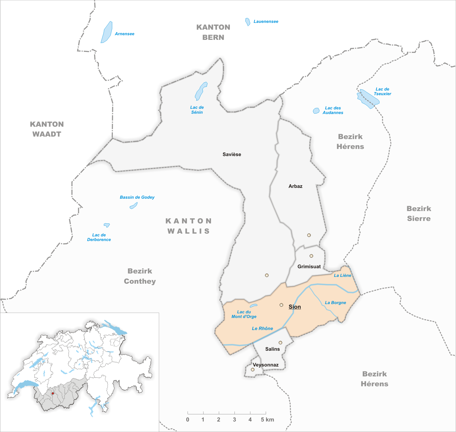 Municipality Sion